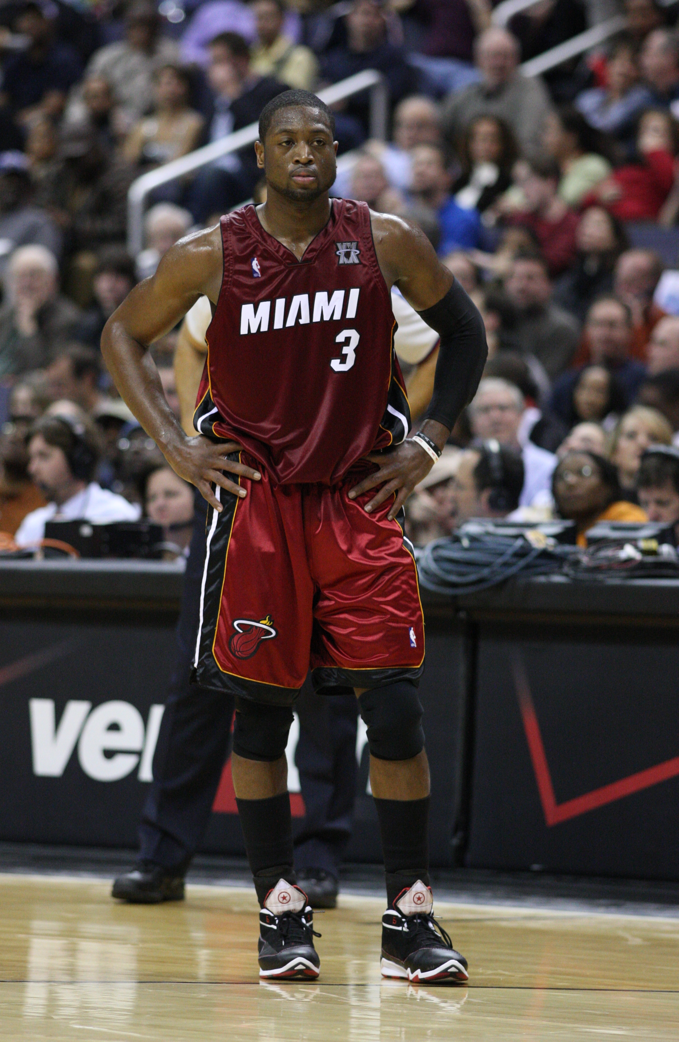 Dwyane Wade playing with the Miami Heat